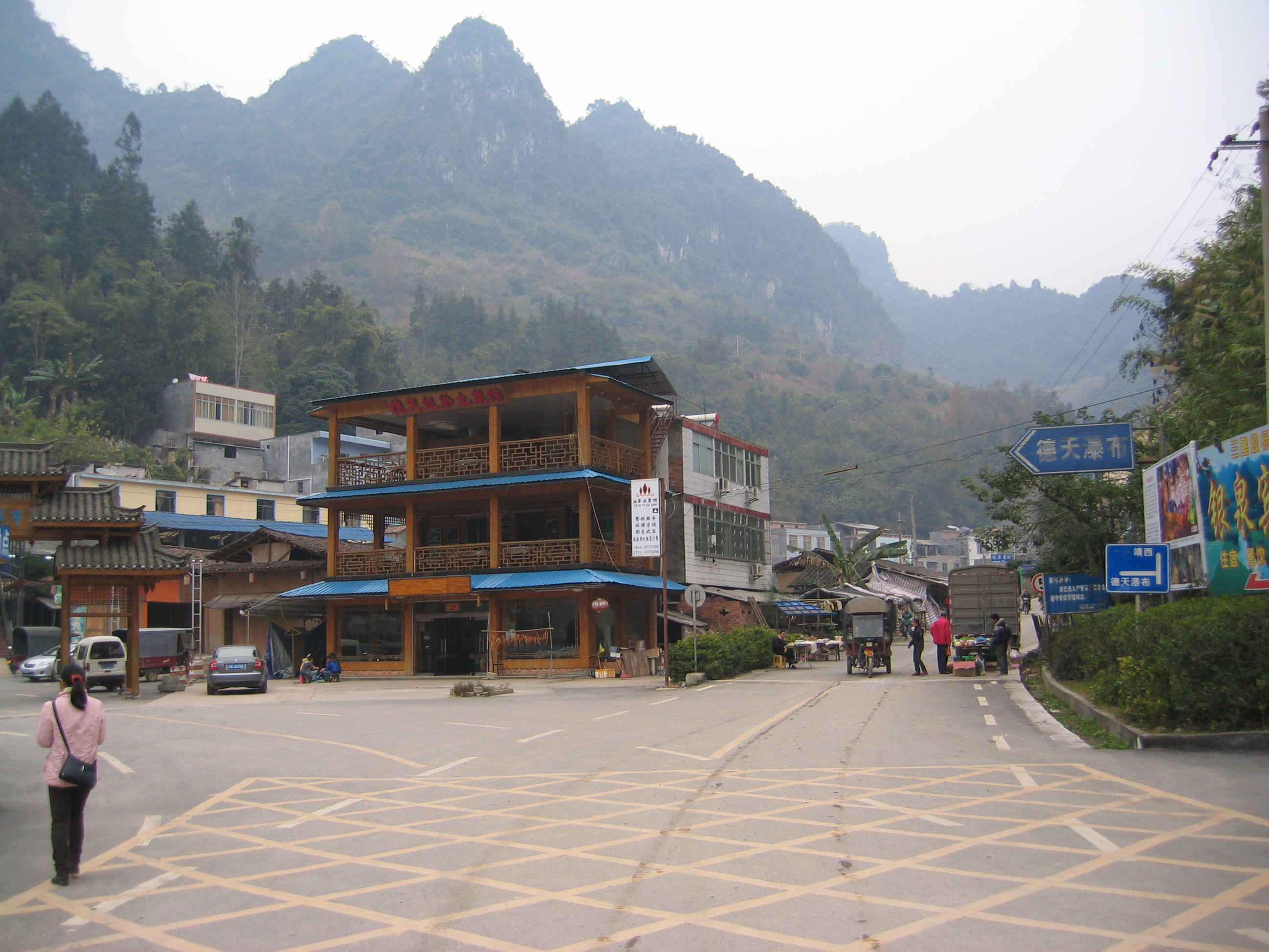 Ban Gioc – Detian Falls Tourist area in Suolong Town, Daxin County, Chongzuo City, Quangxi Province, China 中文（中国大陆）: 中国, 广西省, 崇左市, 大新县, 硕龙镇